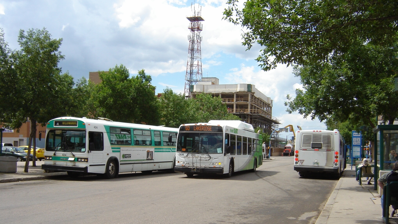 Saskatoon Transit bus at down town terminal